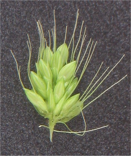 Setaria viridis inflorescense